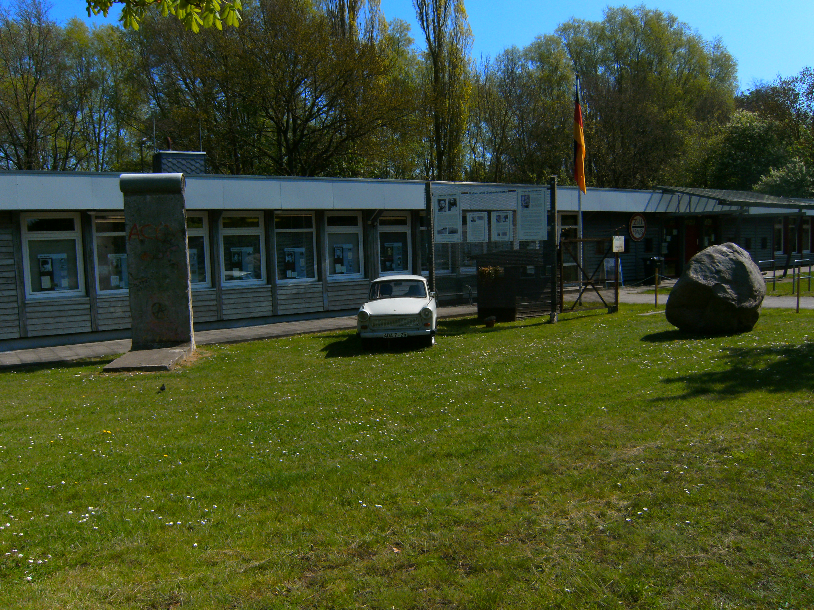 Lübeck-Schlutup, Germany: Documentation house GDR in the Mecklenburger Straße 12. In the building of the former western check point to the GDR. Building.